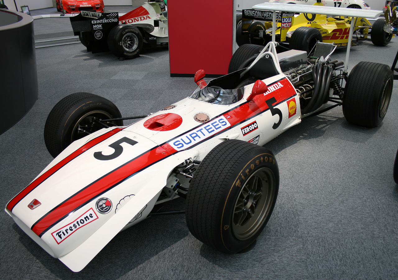 Honda RA301 (#5 John Surtees) 1968 Mexican GP version